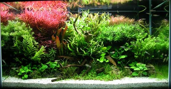 A 58g aquascape by Luis Navarro